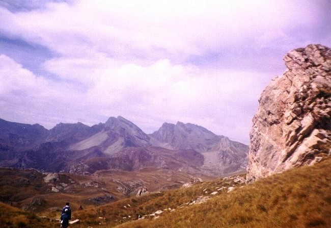 The Korab Mountain approached from the Macedonian side. The top (Korab summit, 2764 m) is on the right side of the massif seen on the picture.